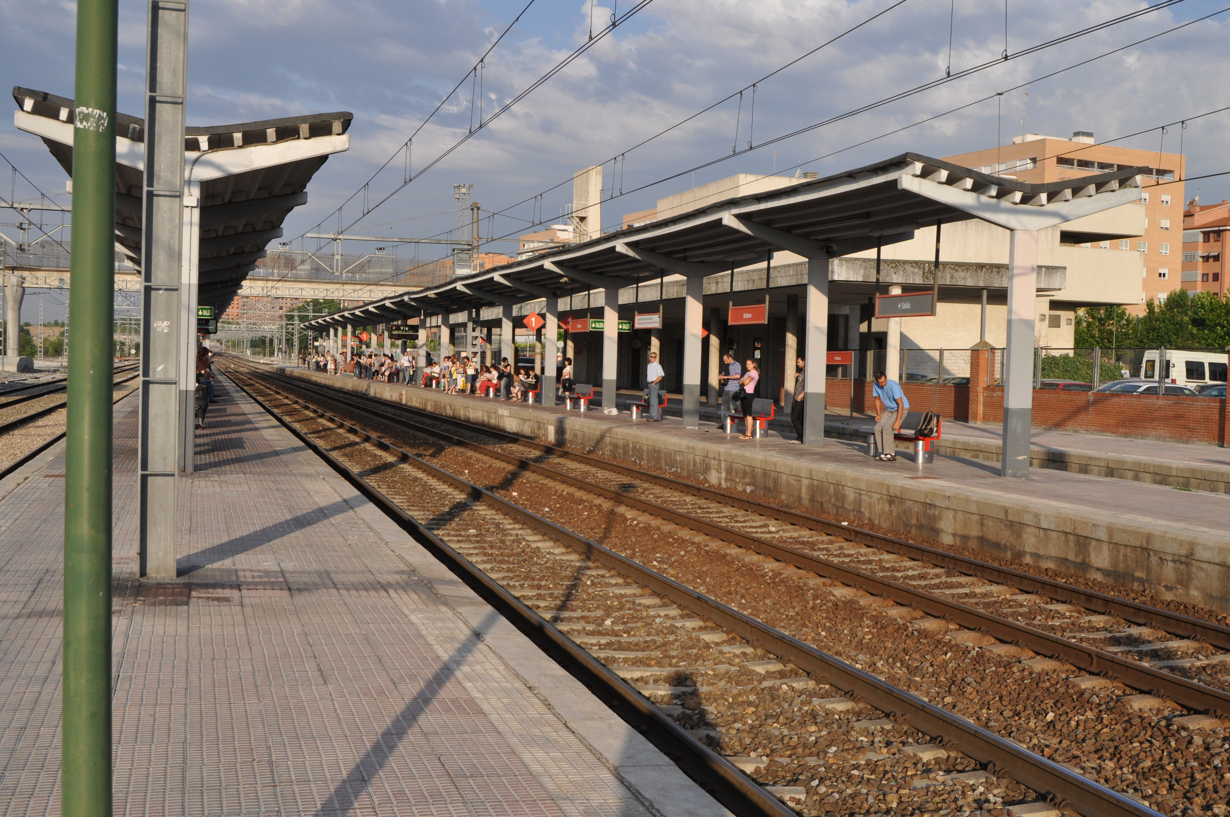 Vicálvaro rail station (Madrid, Spain).